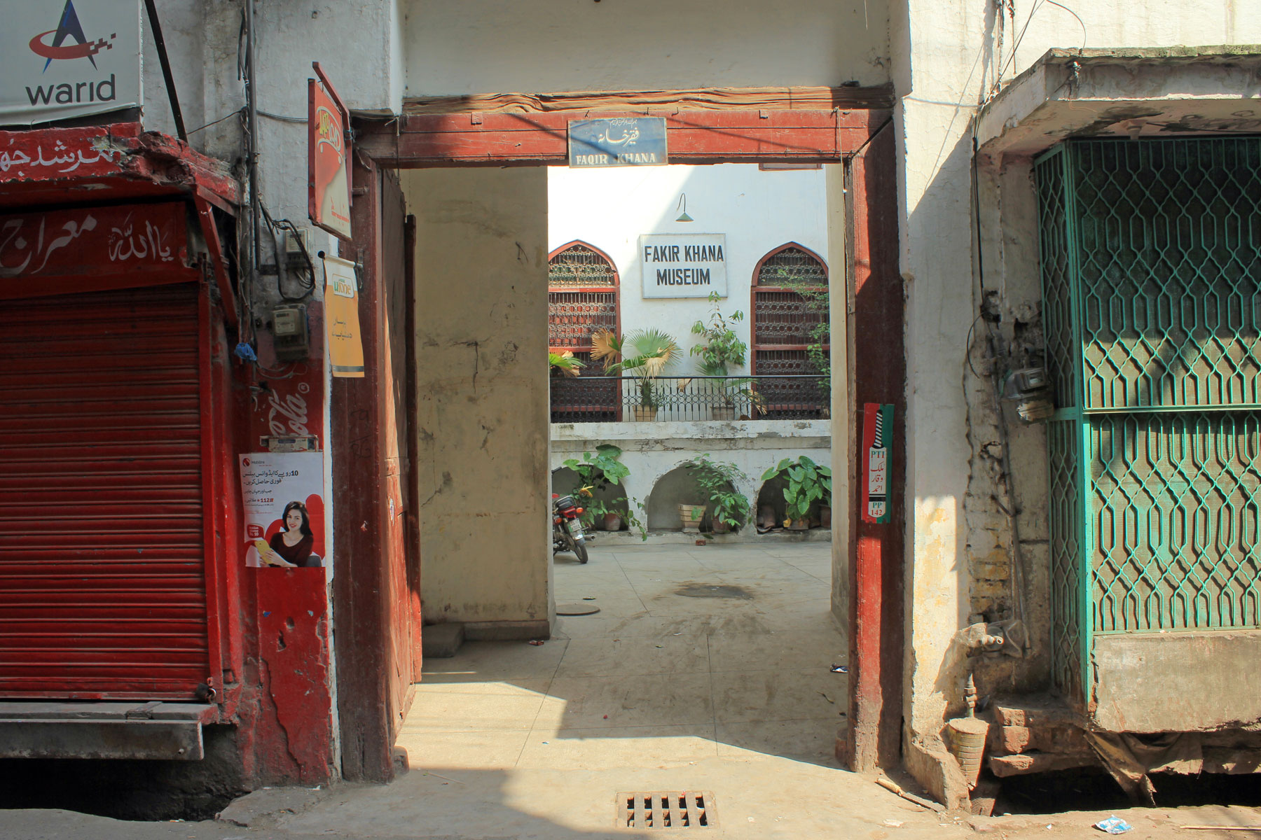 Fakir Khana Museum This is a photo of a monument in Pakistan identified as the PB-P-76